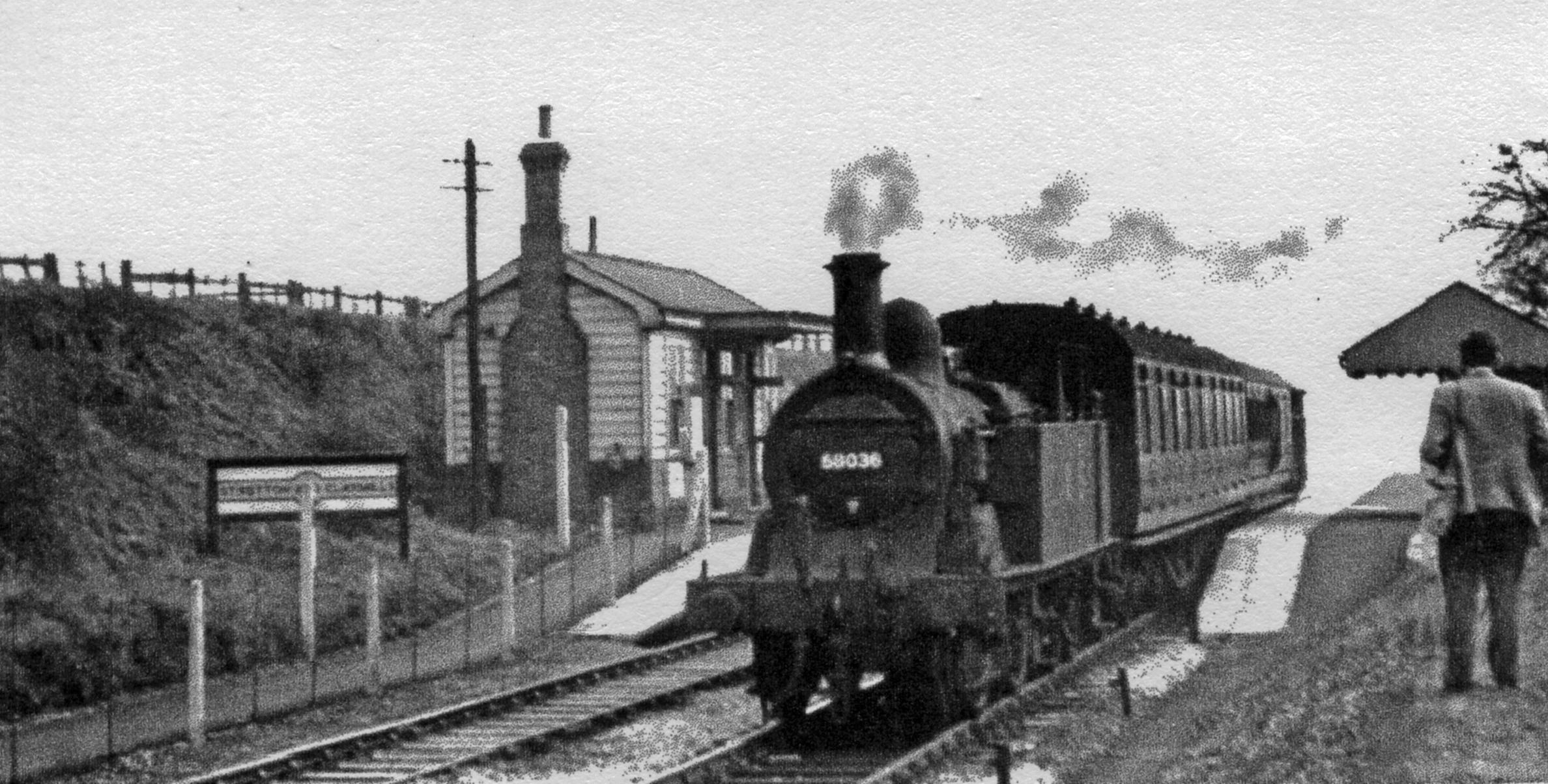 Stretton & Clay Mills station with local train, 1949View south, towards Burton-on-Trent: ex-NSR Burton - Tutbury/Egginton Junction branches. The train for Tutbury is headed by ex-Midland Johnson class 1P 0-4-4T No. 58036 (LMS No. 1255) (built 11/1876, withdrawn 7/50). The station closed 1/9/49 (goods 7/6/65), passenger services to Egginton Junction having ceased 4/12/39, to Tutbury 1960 (goods 1968).